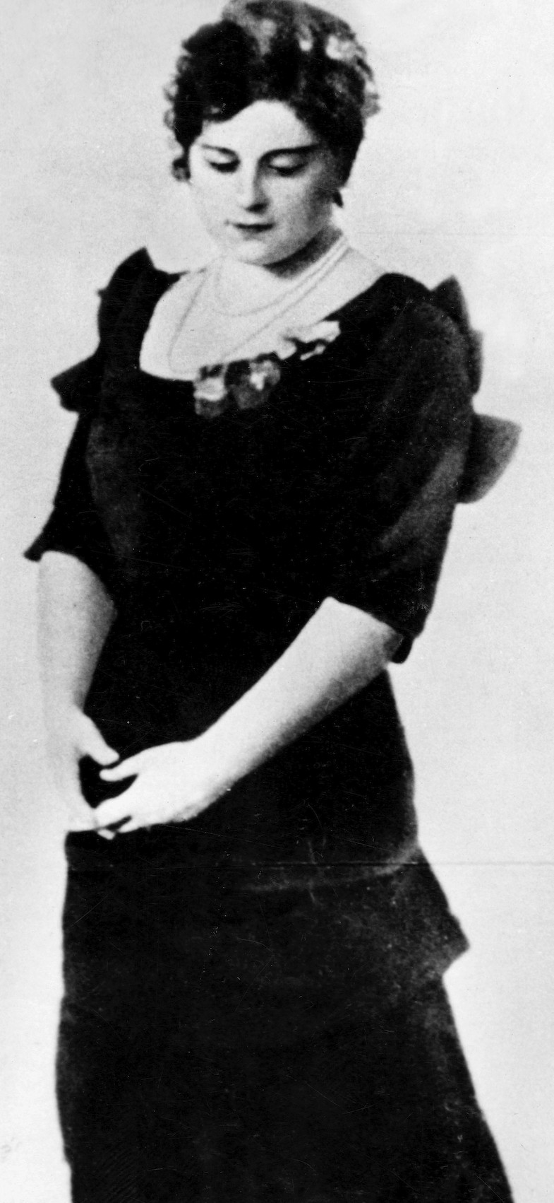 Ekaterina Svanidze, (1880-1907), first wife of Joseph Stalin